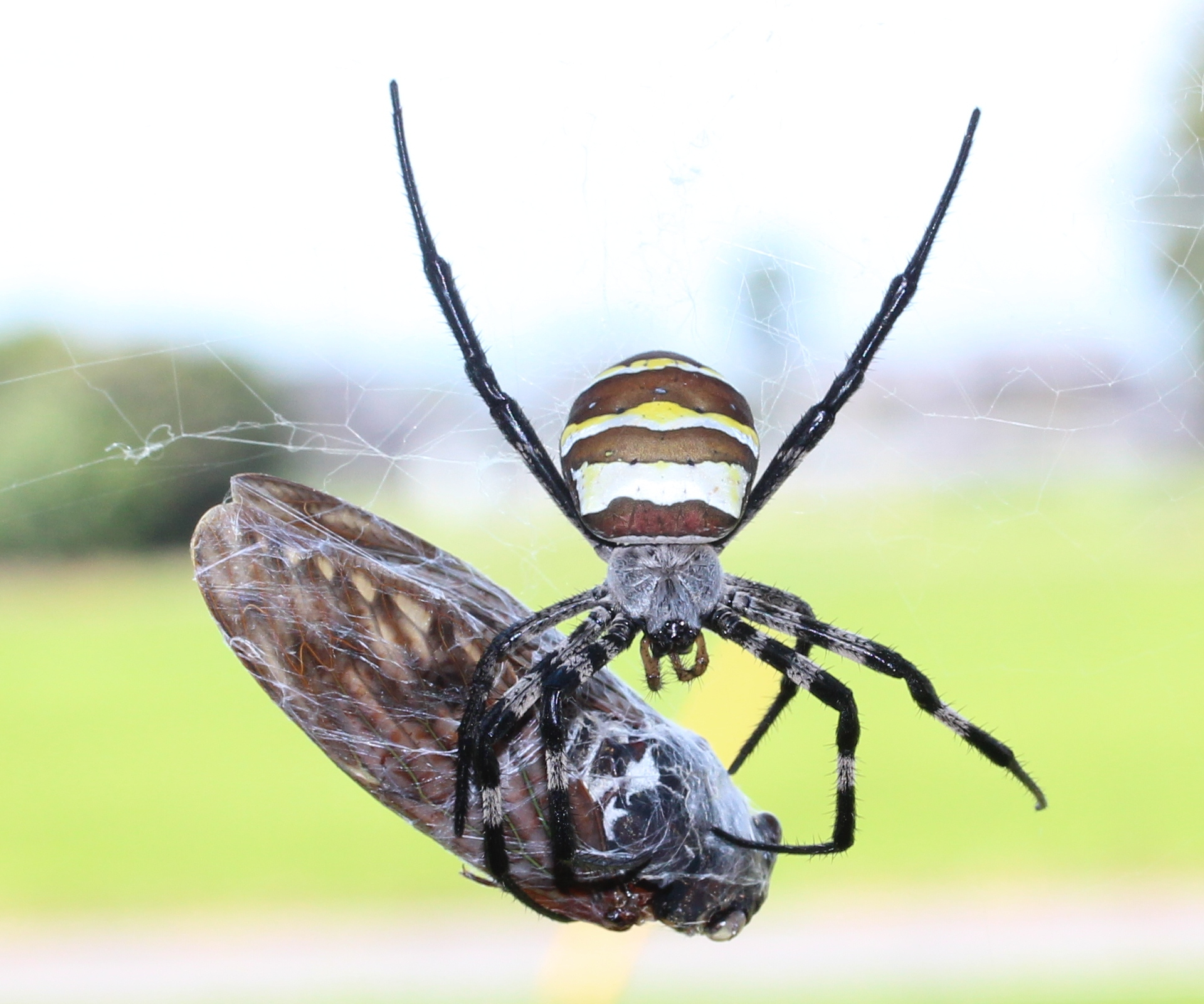 Argiope amoena captured Graptopsaltria nigrofuscata in Japan